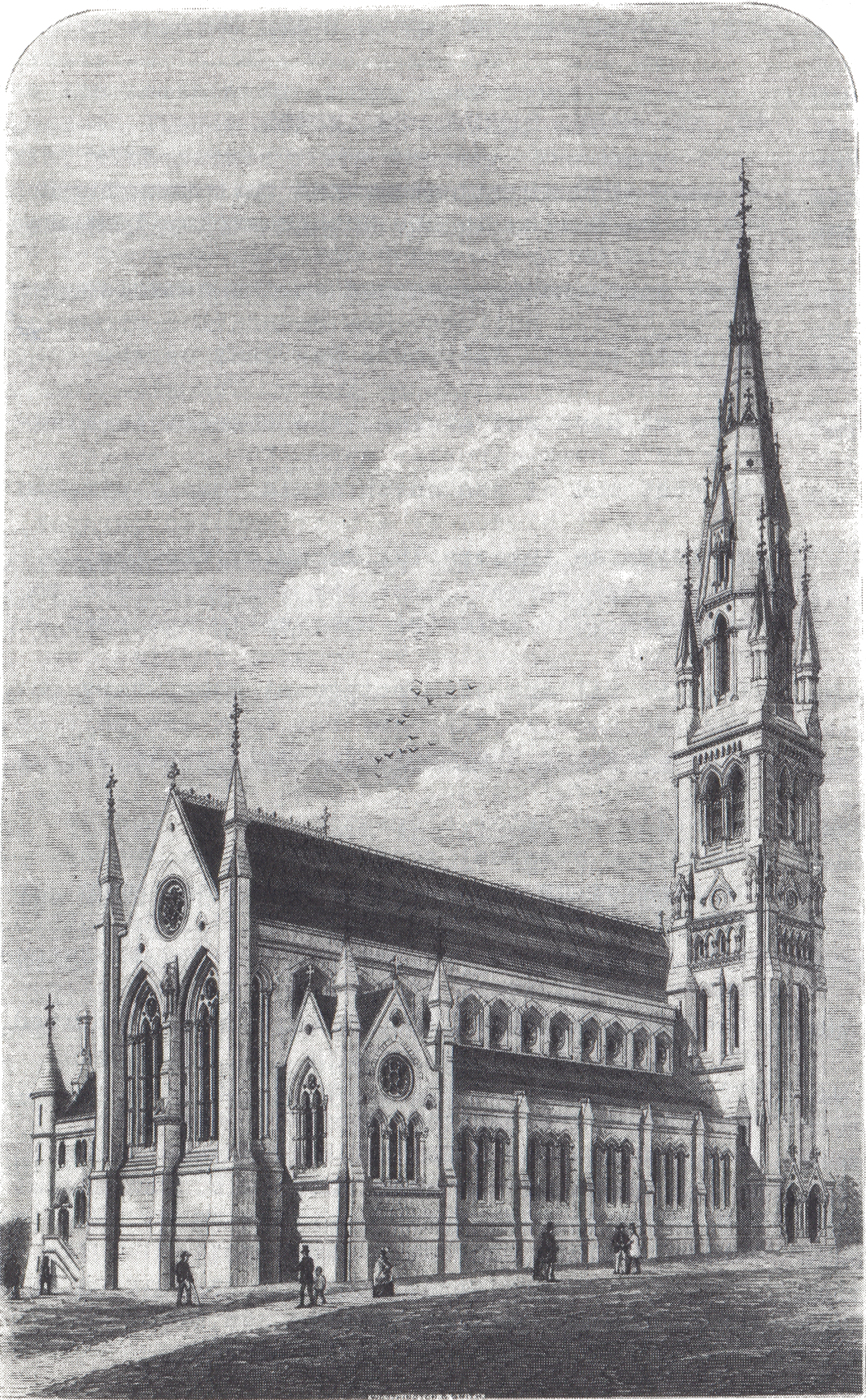 Drawing of St. Patrick's Church in Dungannon, County Tyrone, as planned by J. J. McCarthy. Published on 4th March 1871 in The Builder, p. 166-7.